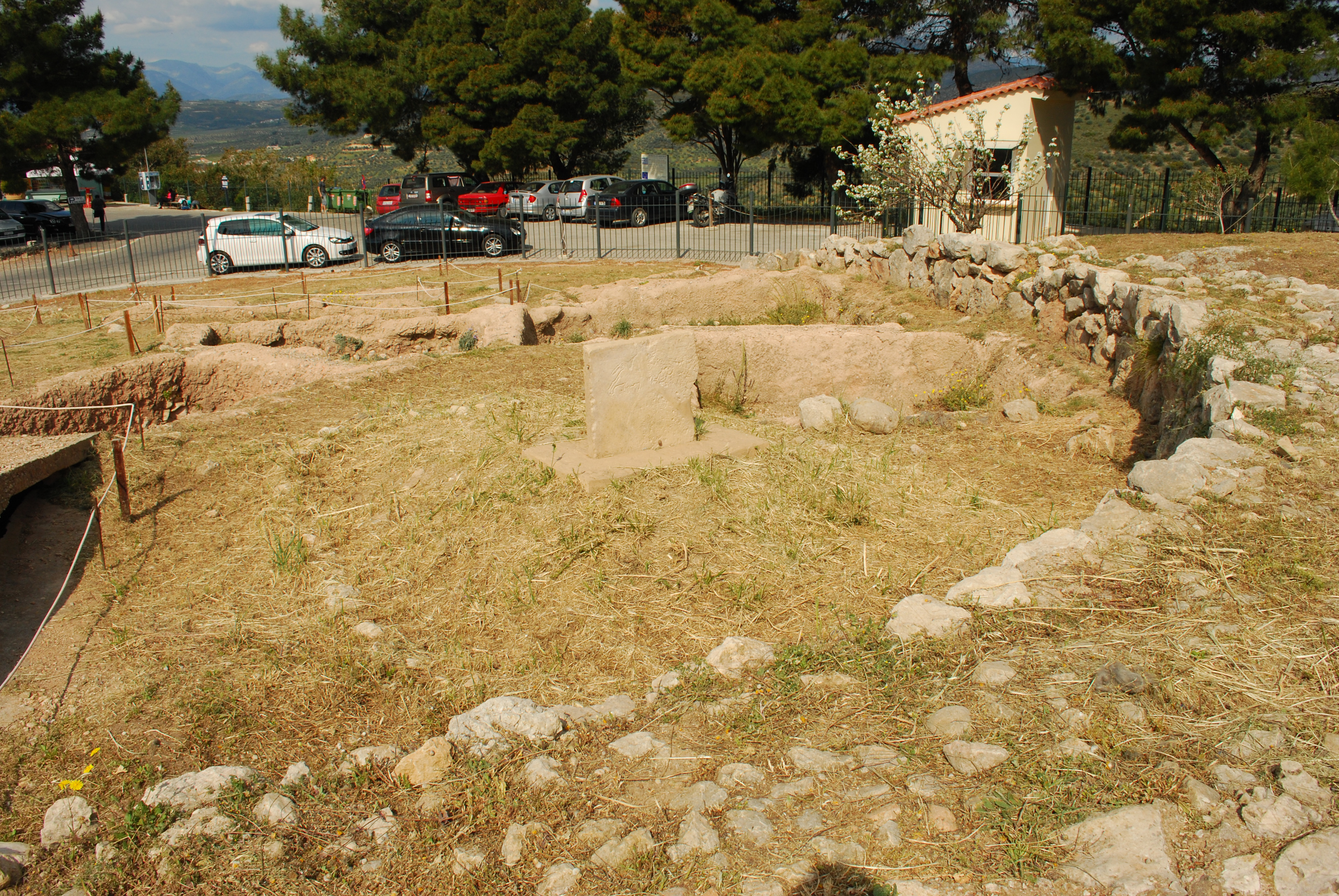 Grave Circle B in Mycenae.